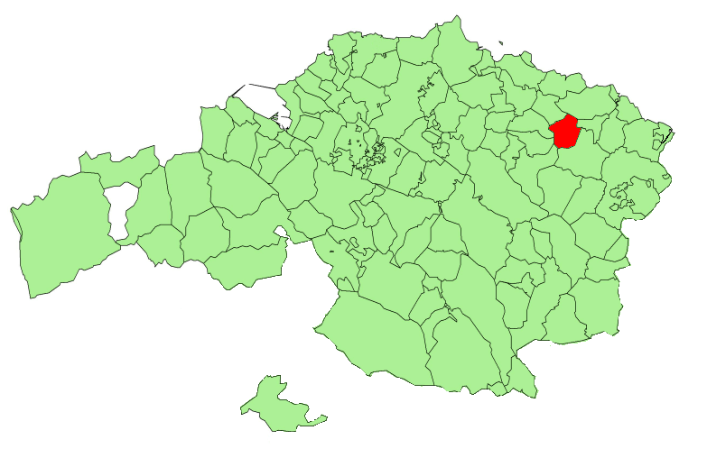 Nabarniz municipality in the province of Biscay